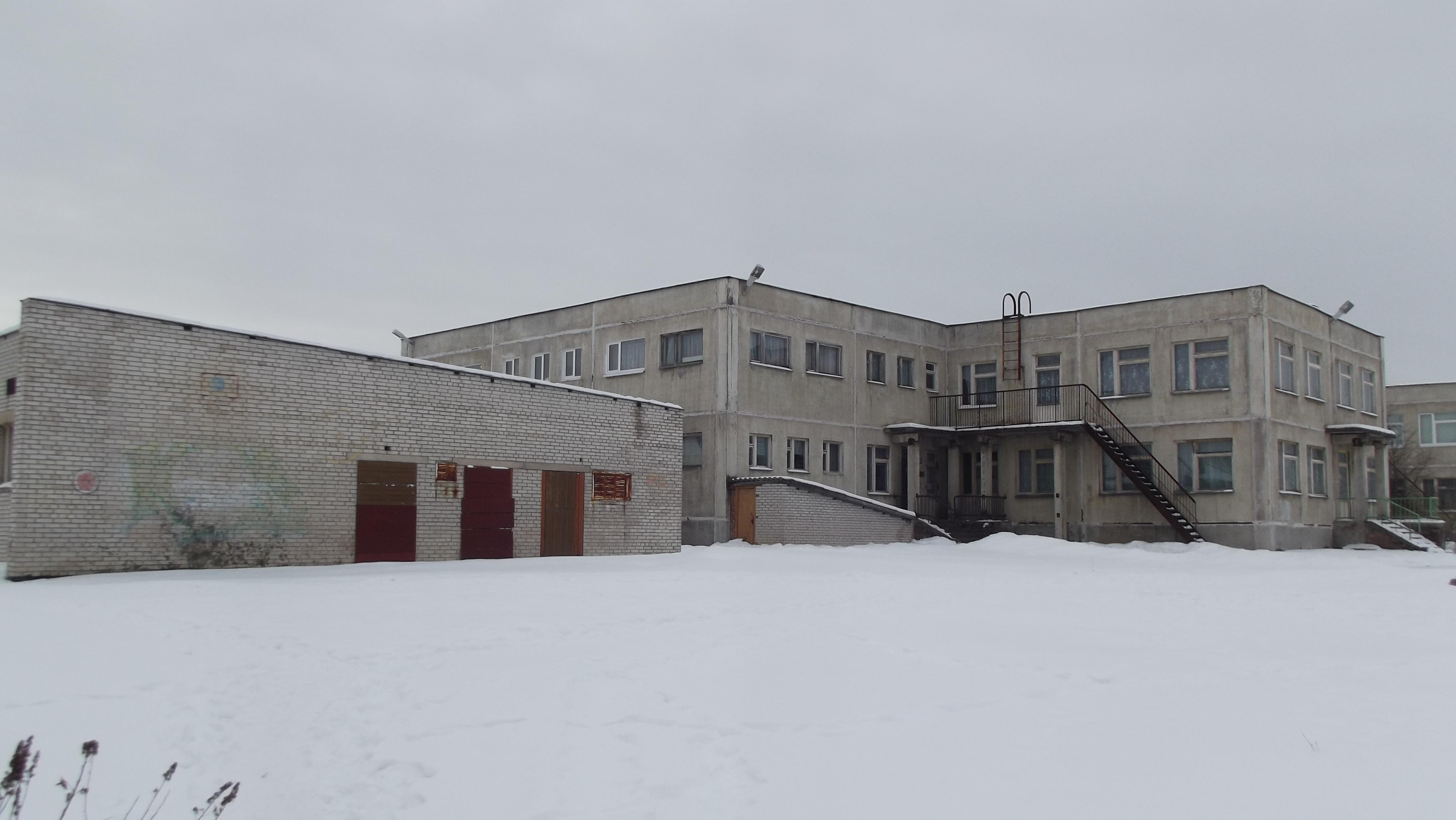 Peniki – School (1-9 grades) (until 2010). Now it's a branch of the Bolshaya Izhora school.